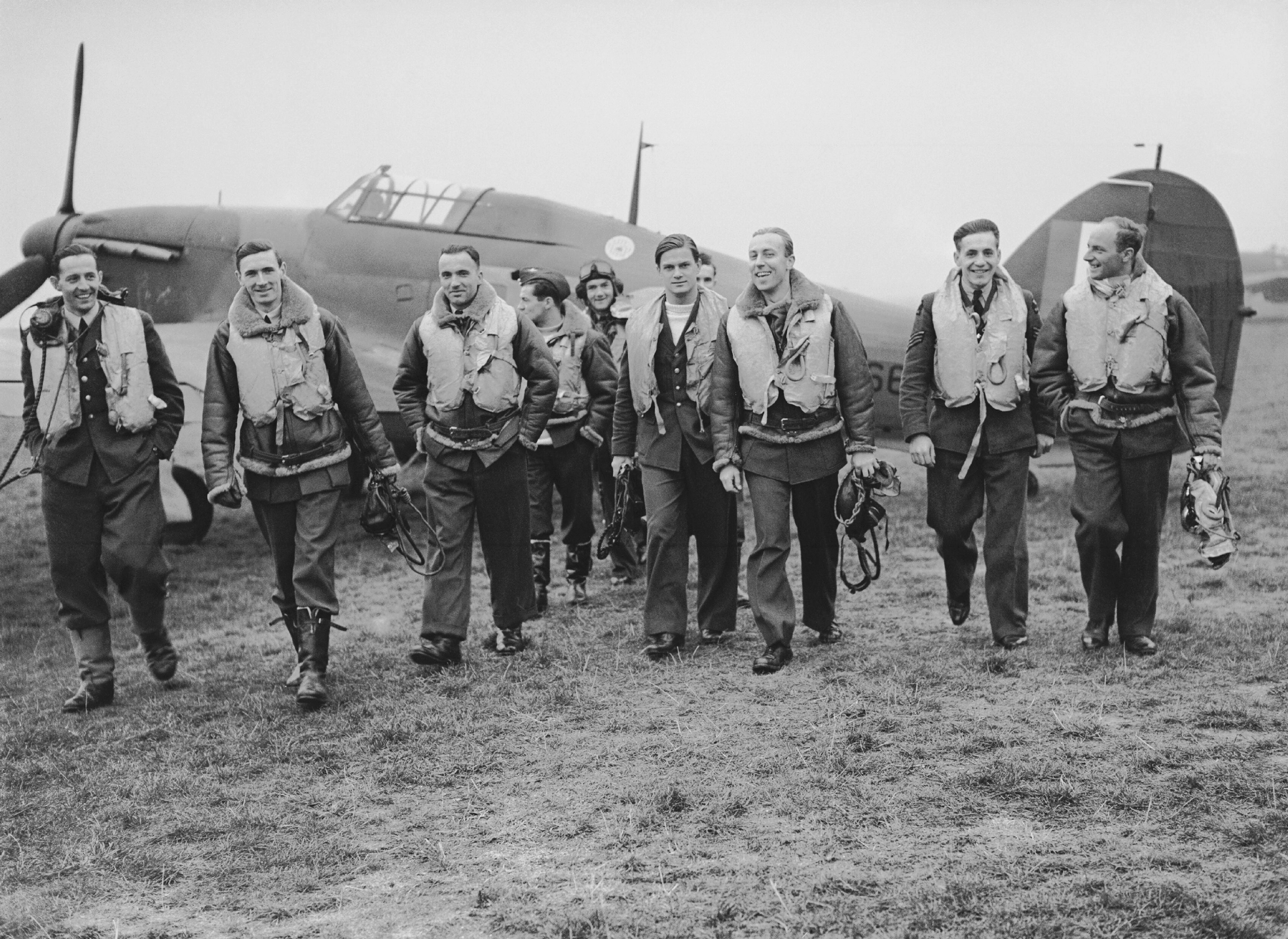 Pilots of No. 303 (Polish) Squadron RAF with one of their Hawker Hurricanes, October 1940. A group of pilots of No 303 Polish Fighter Squadron RAF walking toward the camera from a Hawker Hurricane after, purportedly, returning from a fighter sortie. Left to right, in the front row are; Pilot Officer Mirosław Ferić, Flight Lieutenant John A Kent (Commander of 'A' Flight), Flying Officer Bogdan Grzeszczak, Pilot Officer Jerzy Radomski, Pilot Officer Witold Łokuciewski, Pilot Officer Bogusław Mierzwa (obscured by Łokuciewski), Flying Officer Zdzisław Henneberg, Sergeant Jan Rogowski and Sergeant Eugeniusz Szaposznikow. In the centre, to the rear of this group, wearing helmet and goggles is Flying Officer Jan Zumbach.